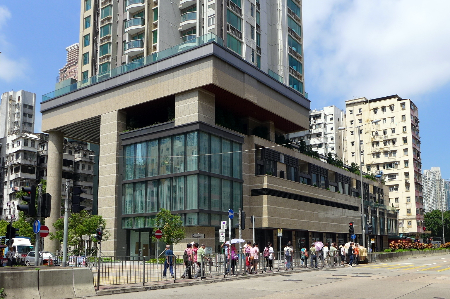 Trinity Towers base